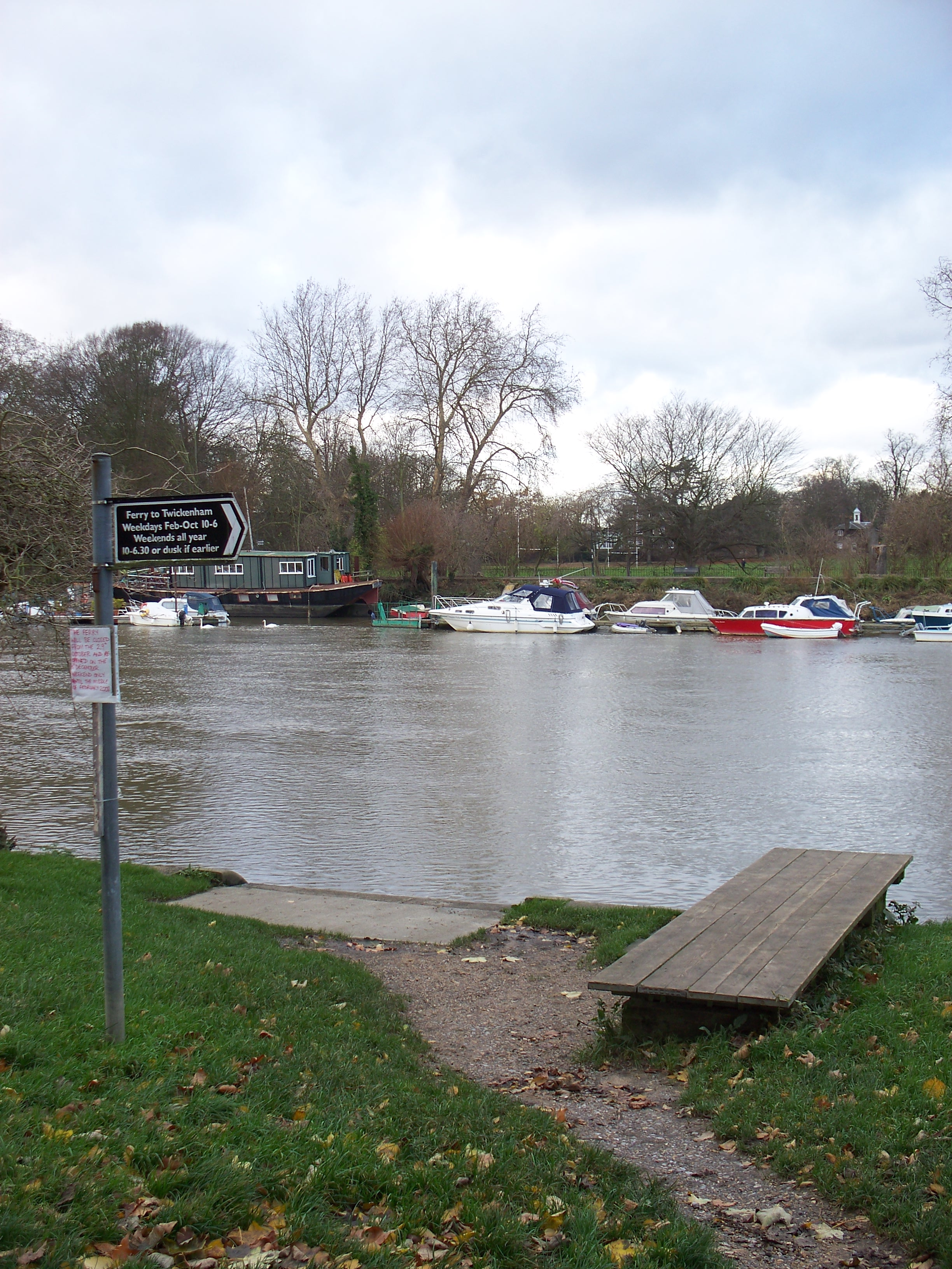 Hammerton's Ferry south pier, London